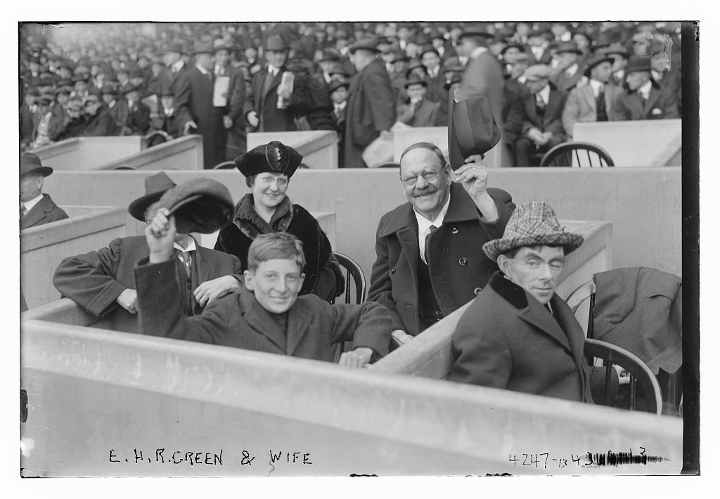 Bain News Service,, publisher. E.H.R. Green and wife [between ca. 1915 and ca. 1920] 1 negative : glass ; 5 x 7 in. or smaller. Notes: Title from unverified data provided by the Bain News Service on the negatives or caption cards. Forms part of: George Grantham Bain Collection (Library of Congress). Format: Glass negatives. Repository: Library of Congress, Prints and Photographs Division, Washington, D.C. 20540 USA, General information about the Bain Collection is available at Higher resolution image is available (Persistent URL): Call Number: LC-B2- 4247-13